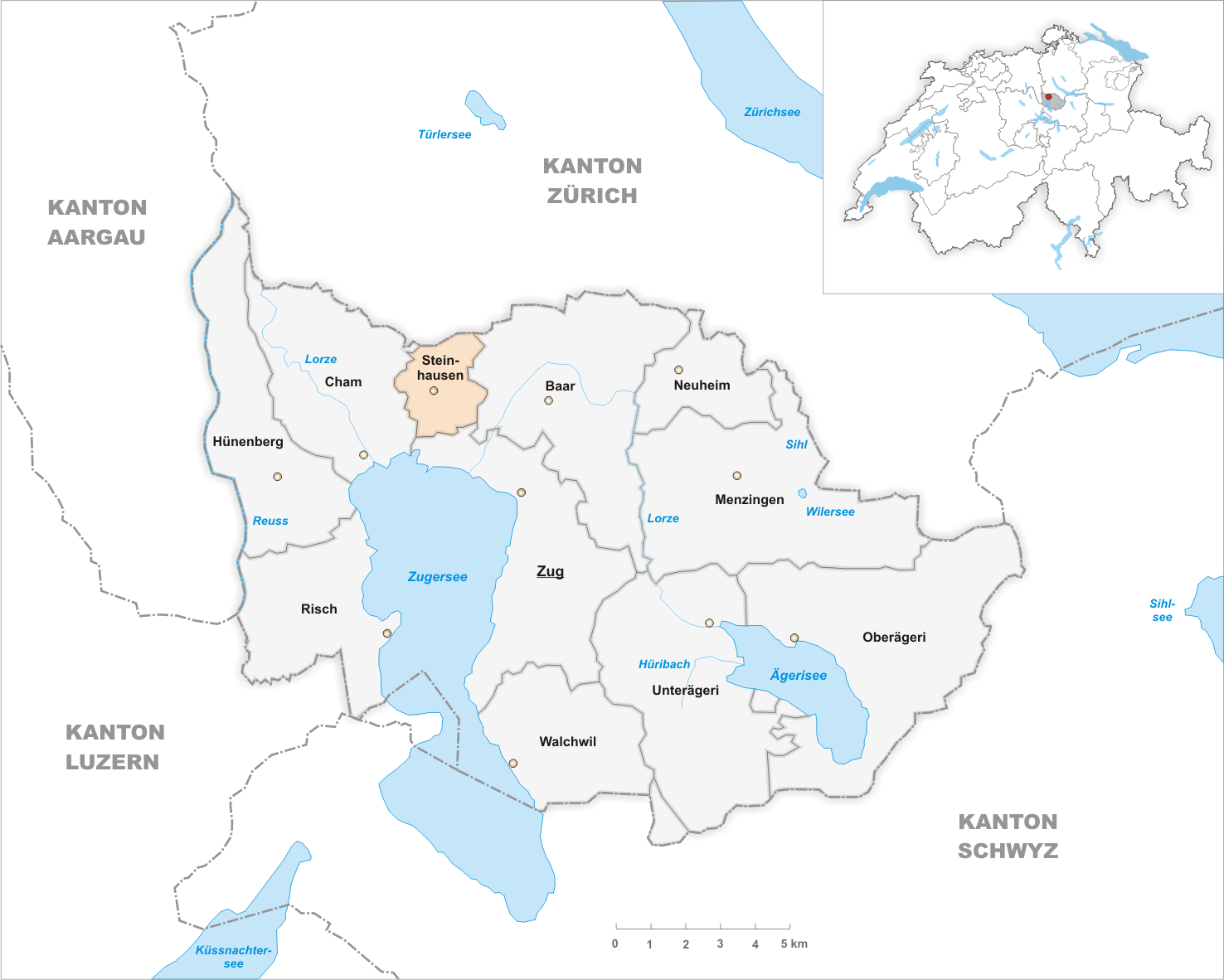 Municipality of Steinhausen